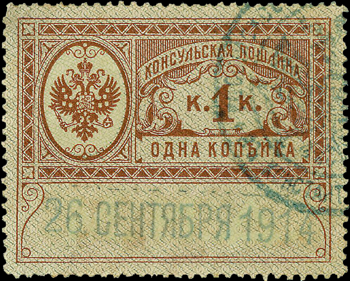 Russia. Consular revenue stamp